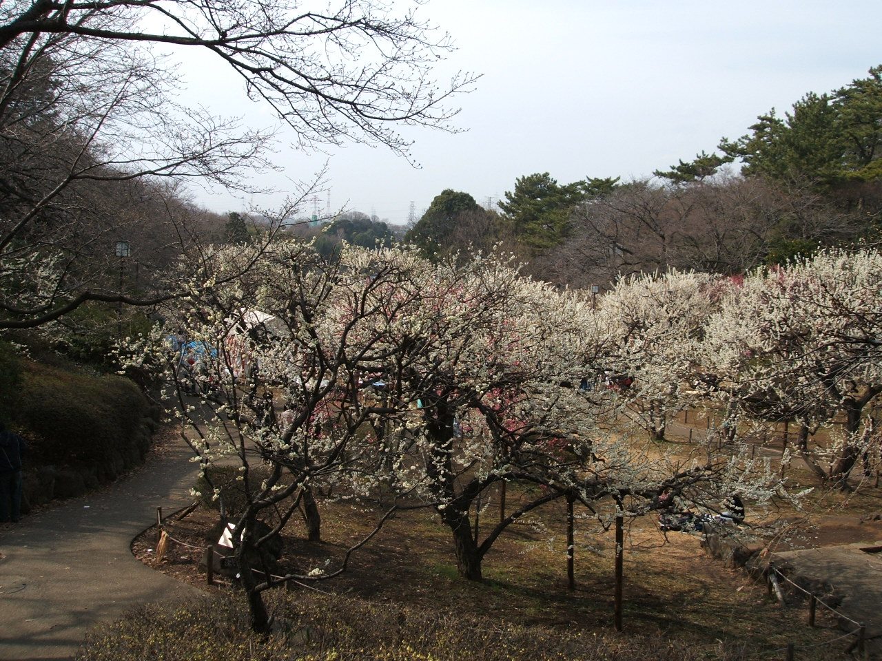 The Okurayama-koen (Okurayama park) is a famous for Ume trees, located in Kohoku-ku, Yokohama, Kanagawa, Japan.